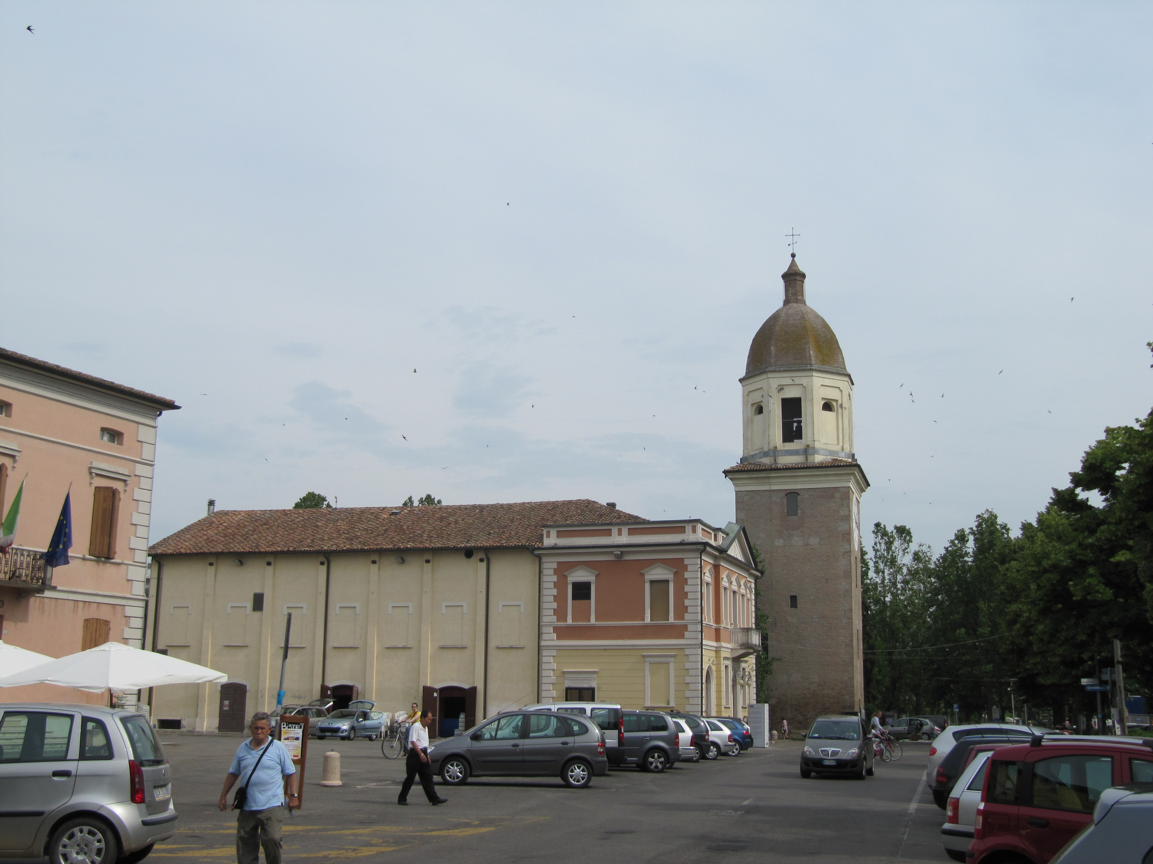 La piazza di Bagnolo